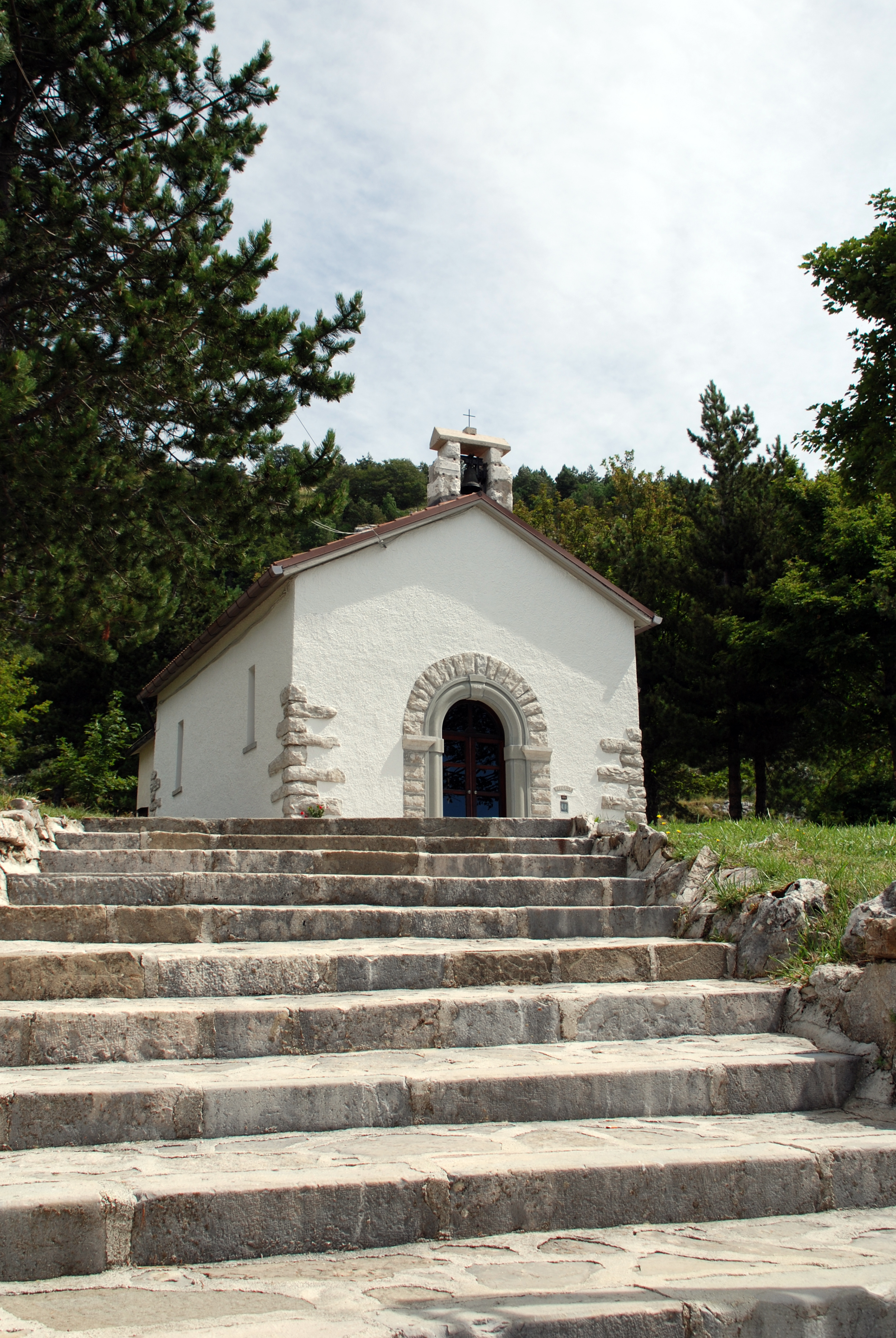 Santa Lucia Church in Capracotta